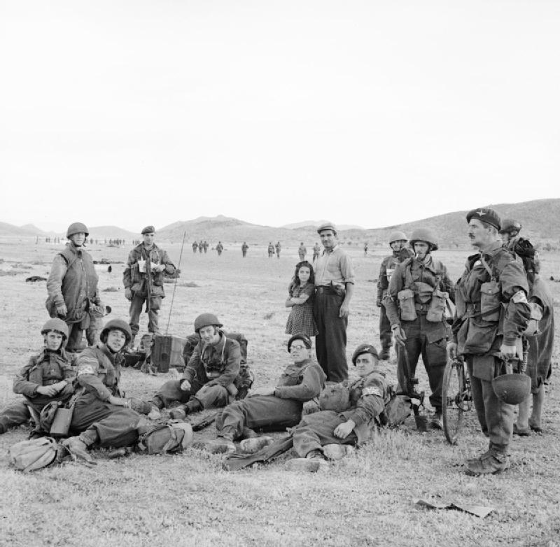 Paratroops of 2nd Indpendent Parachute Brigade on the drop zone at Megara in Greece, 14 October 1944. Paratroops of 2nd Indpendent Parachute Brigade on the drop zone at Megara in Greece, 14 October 1944.